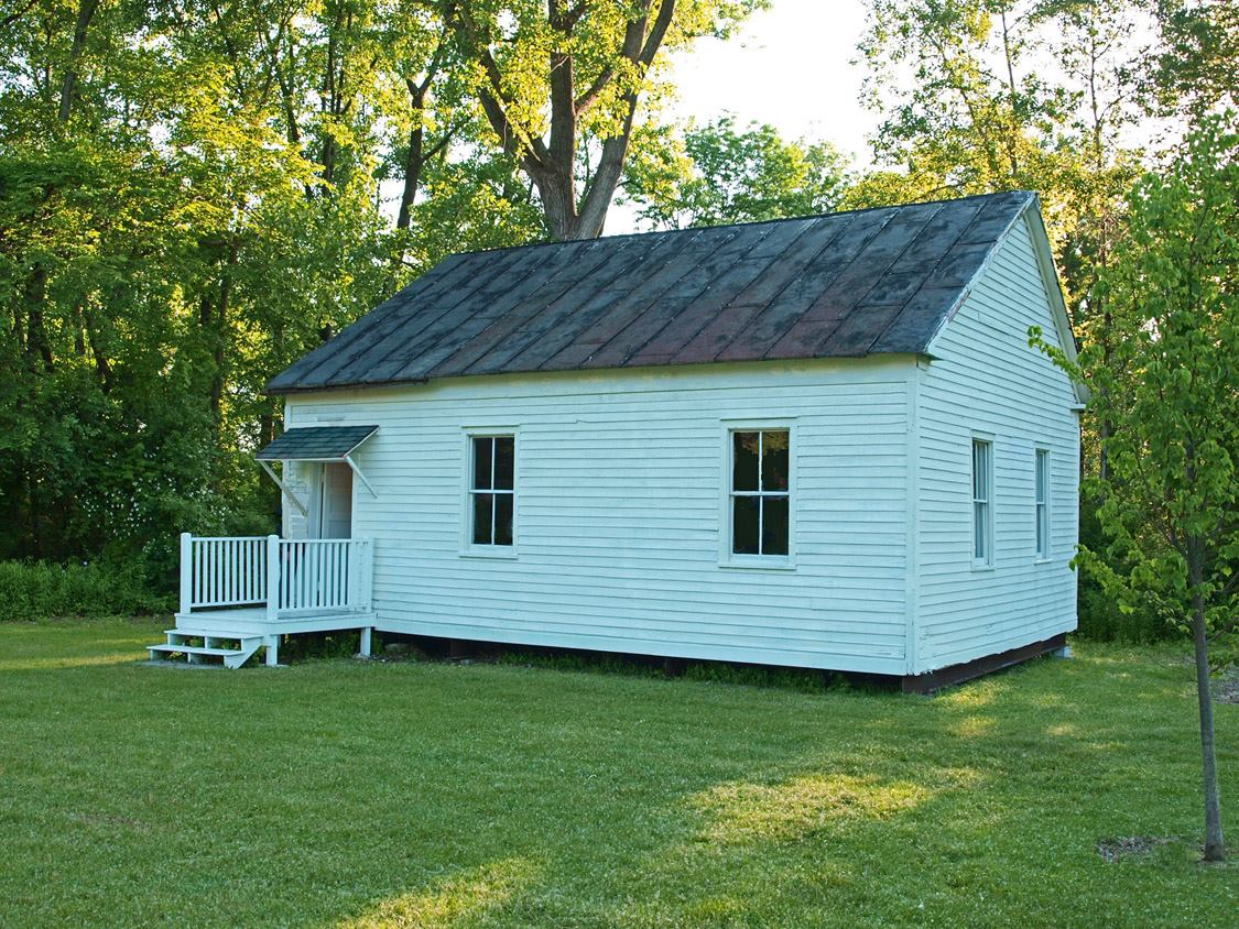 c.1850 Ichabod Crane Schoolhouse. Collection of the Columbia County Historical Society, acquired in 1974.